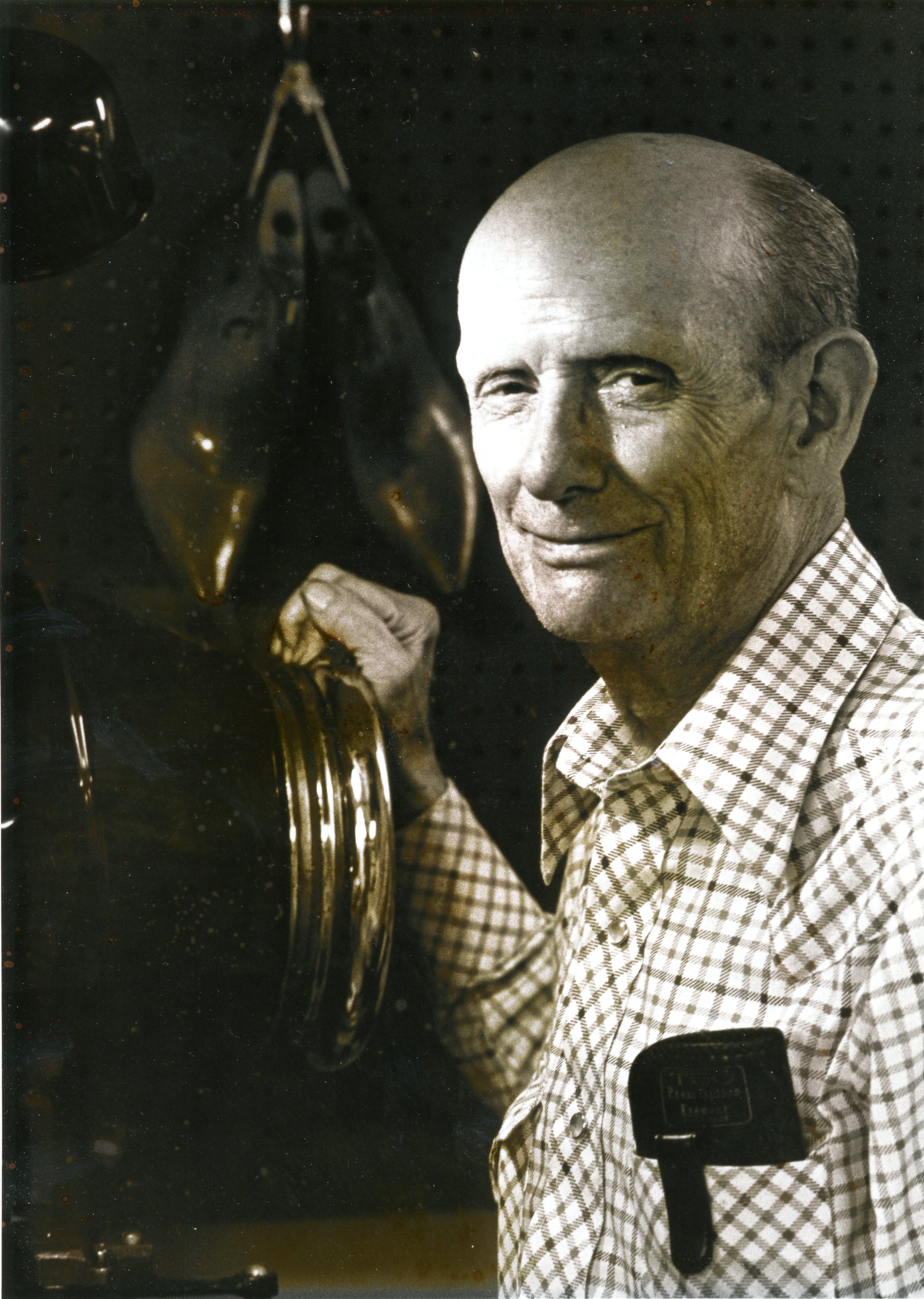 Texas bootmaker Charlie Dunn pictured in 1977